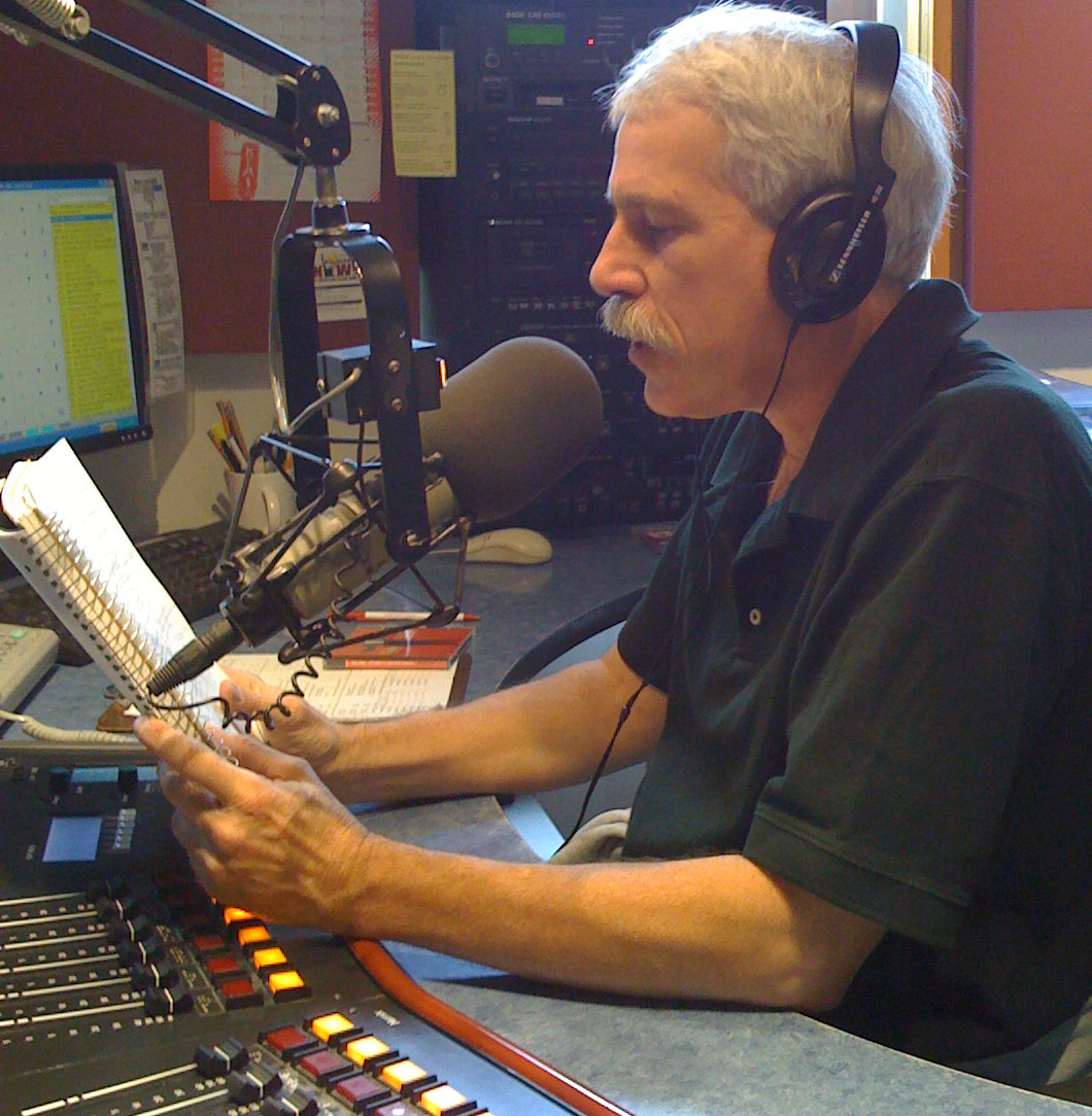 Image of host of radio program.